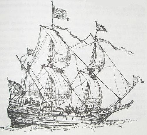 Probable view of Polish warship, "Arka Noego", pinnace type. In service since 1625.